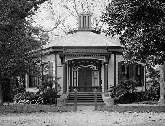 May's Folly, 527 First Avenue (Columbus,Georgia) AKA Octagon House (cropped)